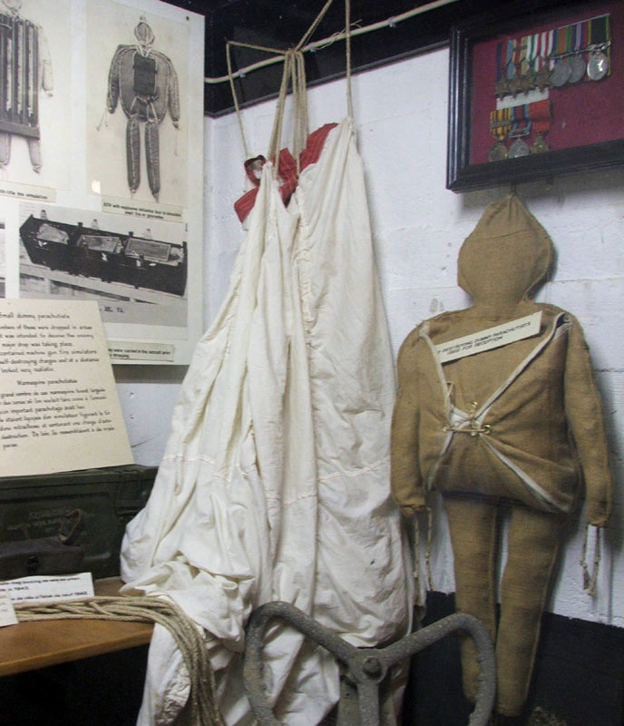 Paratrooper dummy "Rupert" used during the D-day. From the Merville Bunker museum in France. 2006. /PAJ